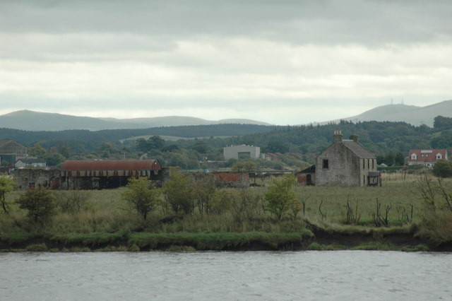 Alloa Inch, near Alloa, Scotland The farmhouse is now derelict and the water defences of this island have been breached so that it can flood during exceptionally high tides.